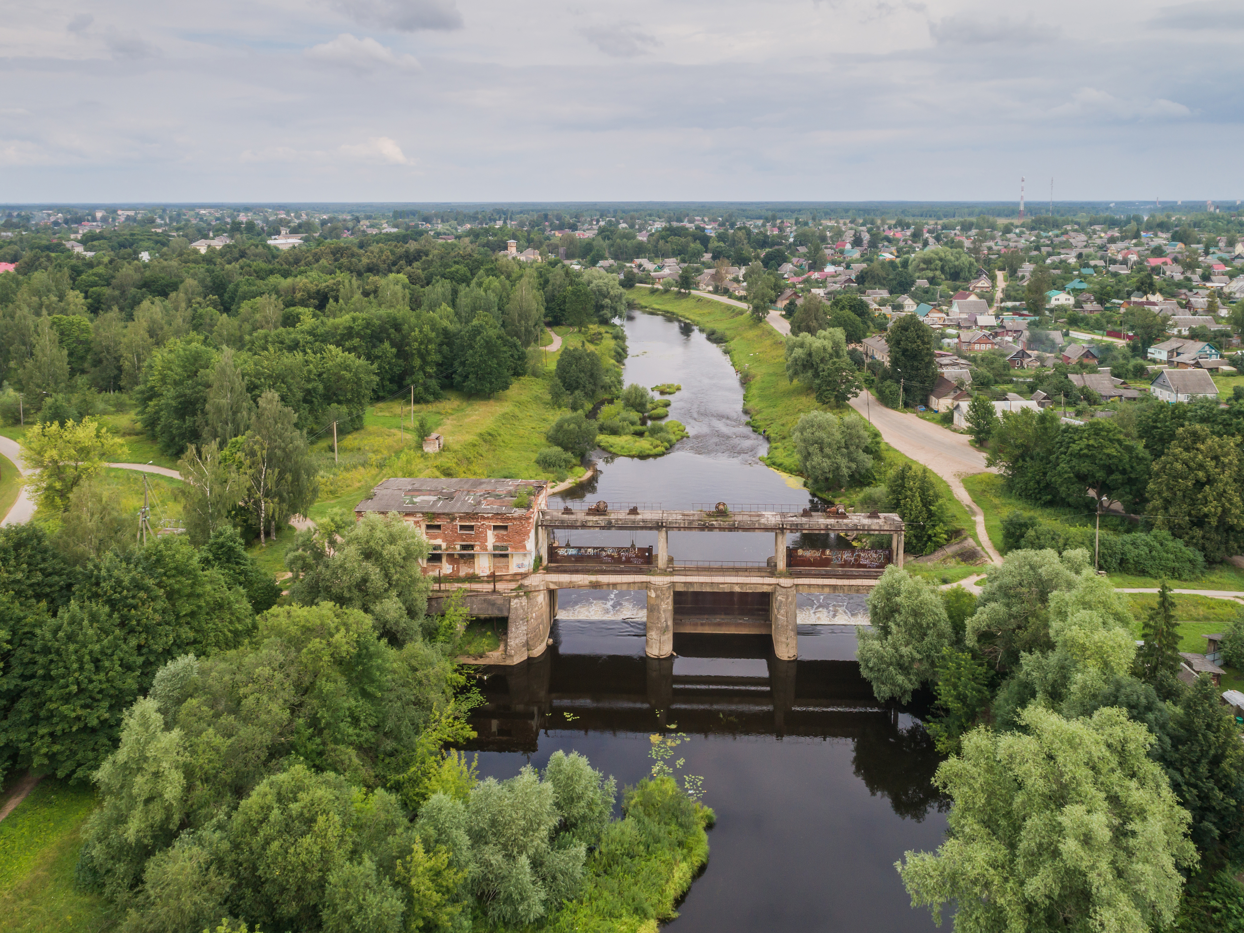 Aerial photo – former HPP on Shelon River in Porkhov, Pskov Oblast, Russia.